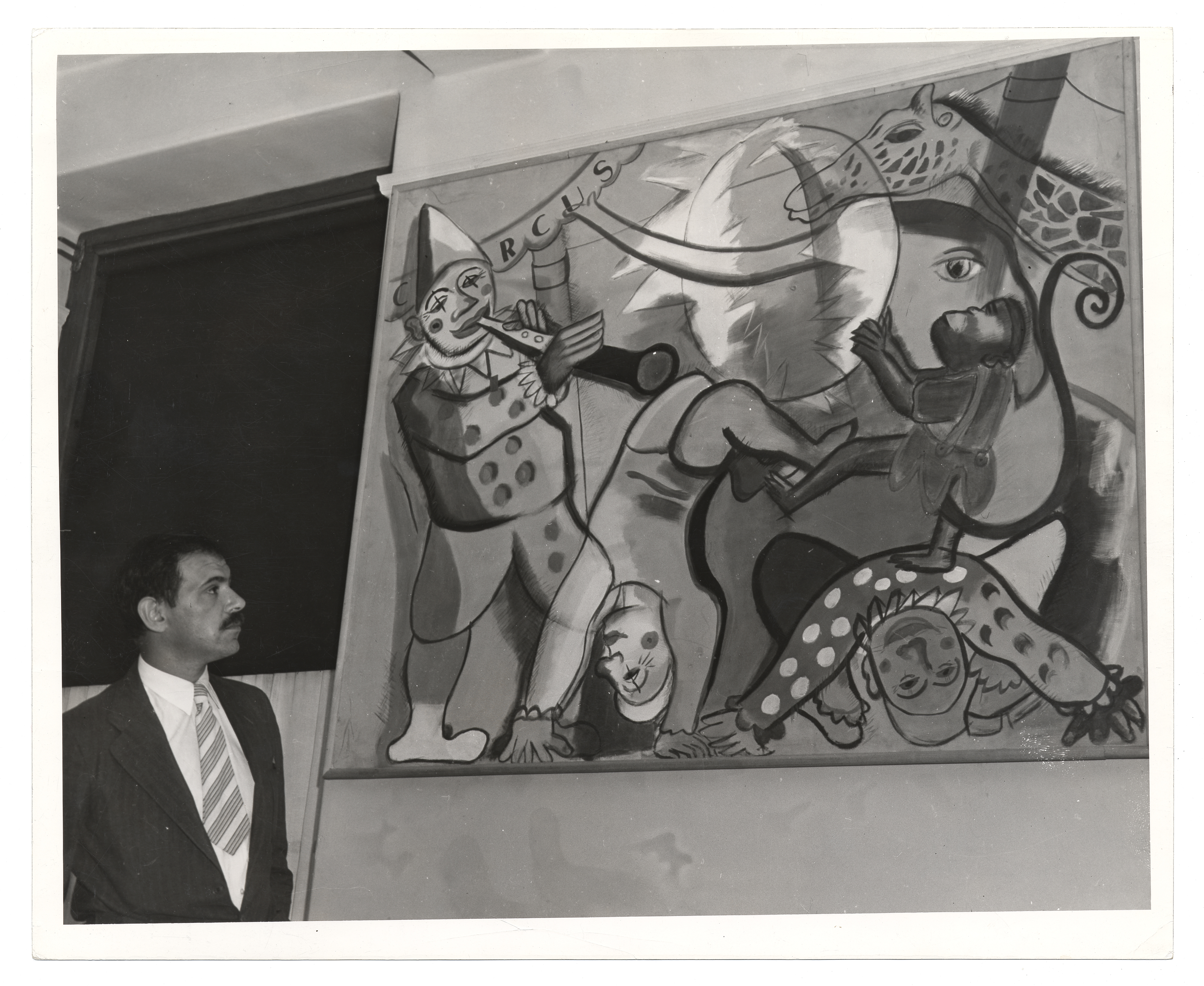 Schanker looking at one of his murals. Identification on verso (handwritten and stamped): Federal Art Project W.P.A.; Photographic Division; 110 King Street; New York City Presentation of mural; Location: Neponsit Beach Hospital; Date: 6/29/39; Negative No.: 4009-3; Photographer:Herman.